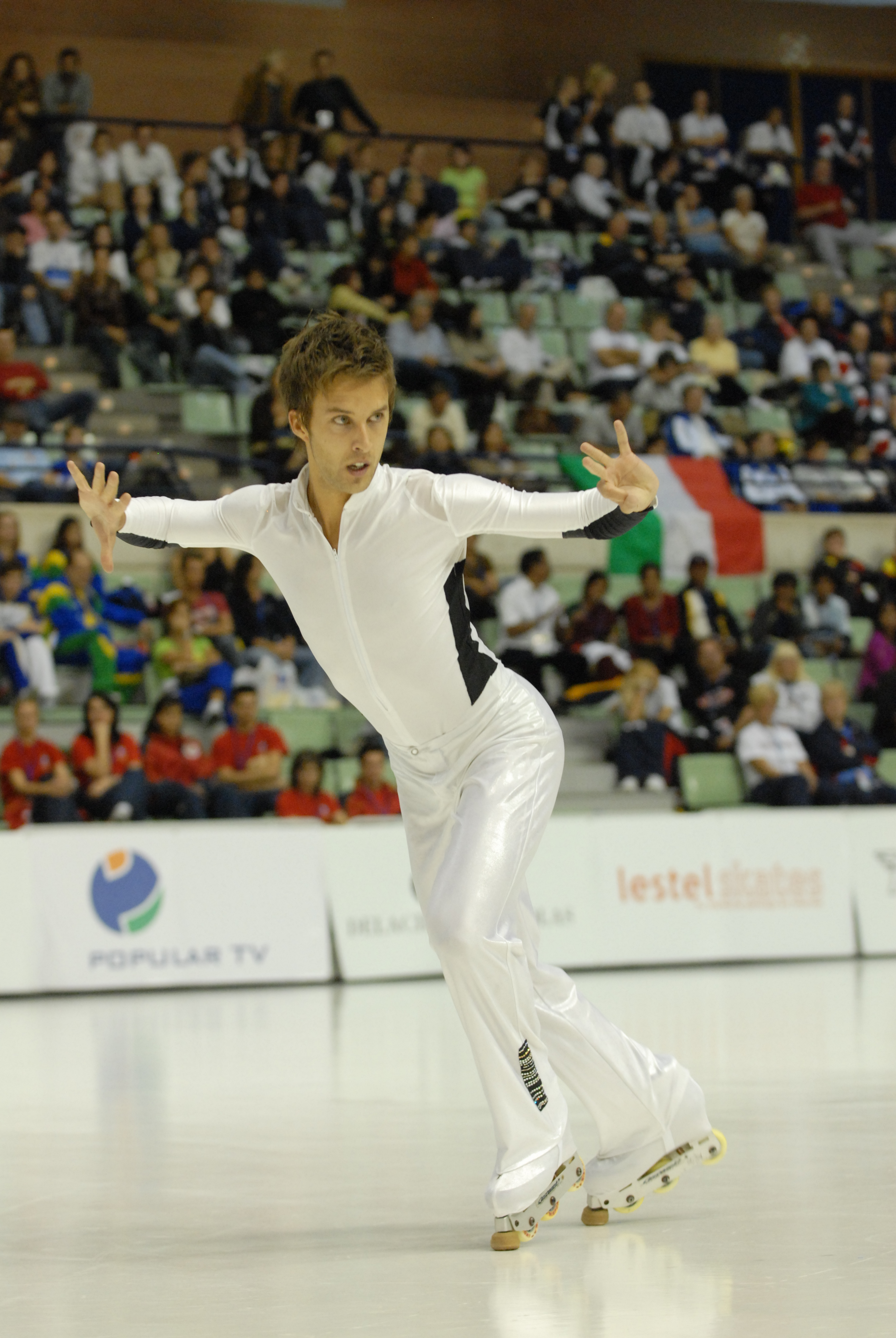 Artistic roller skating Worlds 2006, Eric Eraonouez long program